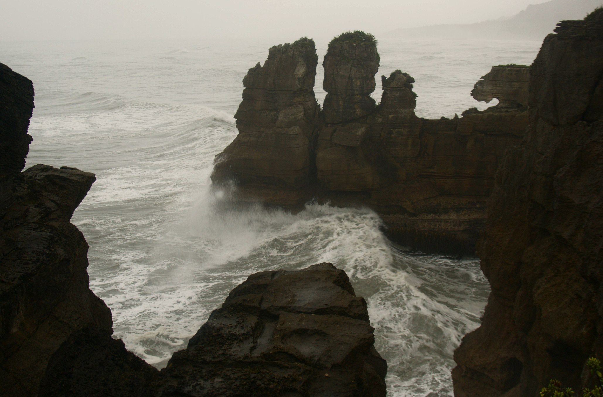 Pancake Rocks, Punakaiki, West Coast region, New Zealand